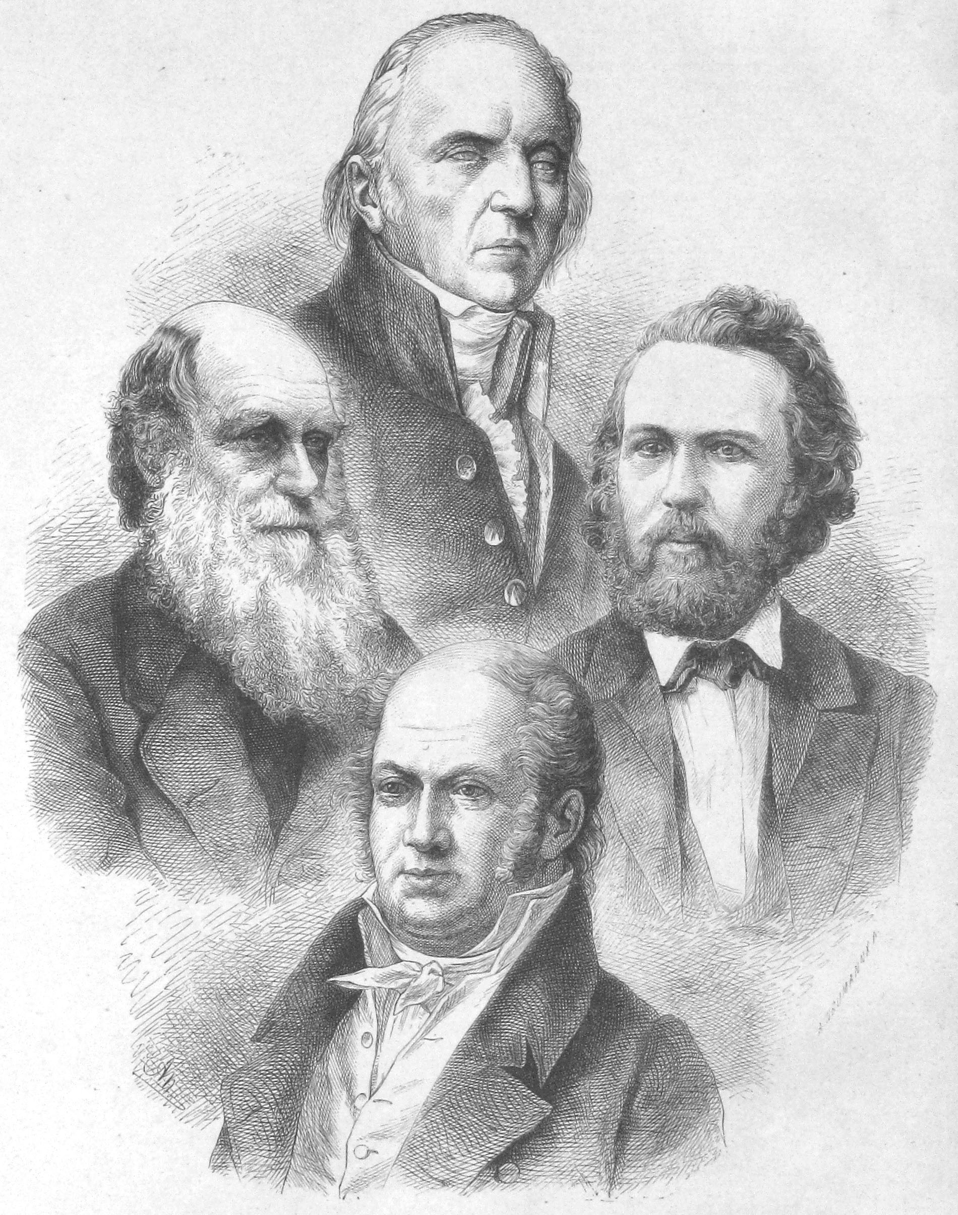 Page 711 from journal Die Gartenlaube for 1873.Extracted image (if any): File:Die Gartenlaube (1873) pic 711.JPG - hi res, ~2.5 MB.